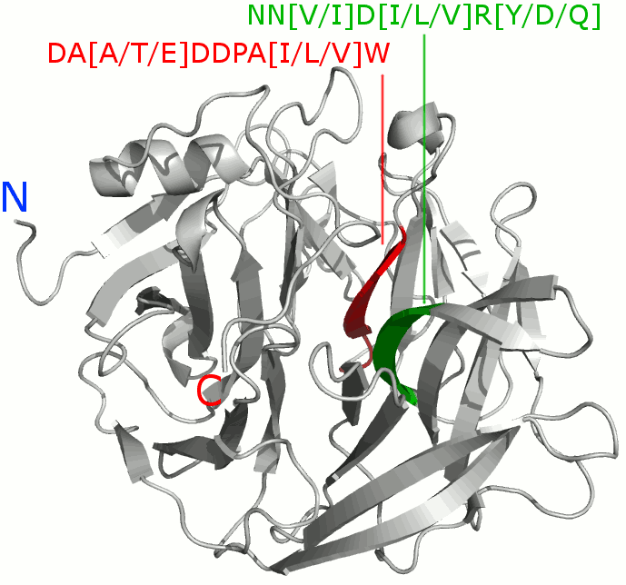 β-propeller phytase (BPP) motifs found by Huang et al. shown in a BPP (PDBID: 1H6L). Actual highlighted motifs are DAADDPAIW (red) and NNVDIRY (green). This picture is made with PyMOL version 2.0.4 and is based on the following study: Huang, Huoqing; Shao, Na; Wang, Yaru; Luo, Huiying; Yang, Peilong; Zhou, Zhigang; Zhan, Zhichun; Yao, Bin (2009-05-01). "A novel beta-propeller phytase from Pedobacter nyackensis MJ11 CGMCC 2503 with potential as an aquatic feed additive". Applied Microbiology and Biotechnology. 83 (2): 249. ISSN 0175-7598.